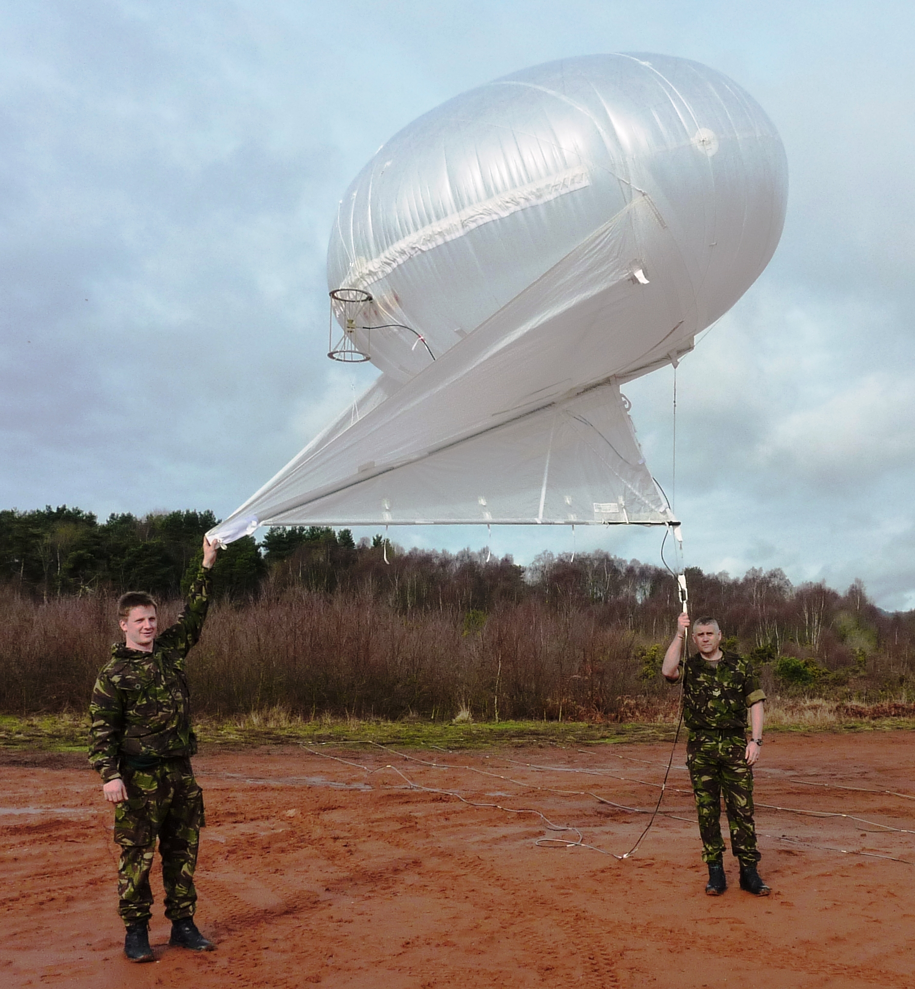 This allows instant over-the-horizon radio communications